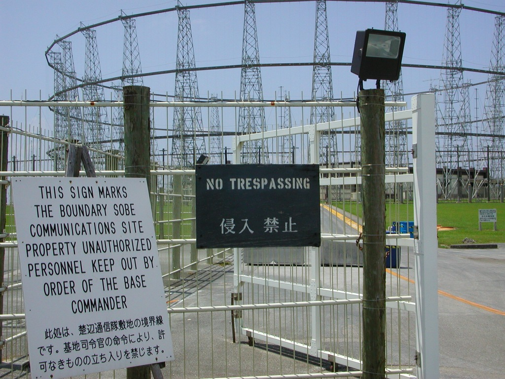 U.S. Navy's Sobe Communications Site in Yomitan, Okinawa, Japan. The antenna visible in the background is a "Wullenweber" or 'circularly disposed antenna array' (aka "Elephant Cage") used for direction finding. The facility has been decommissioned. Photographed on May 19, 2002 by Bmeg.